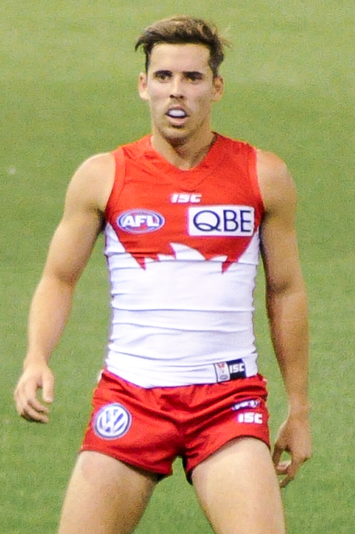 Jake Lloyd during the AFL round two match between the Western Bulldogs and Sydney on 31 March 2017 at the Etihad Stadium in Melbourne, Victoria.